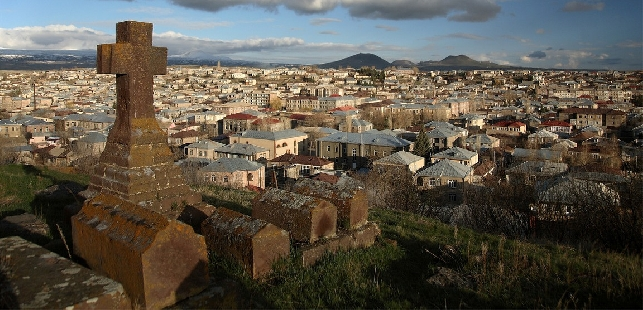 Gavar, Armenia